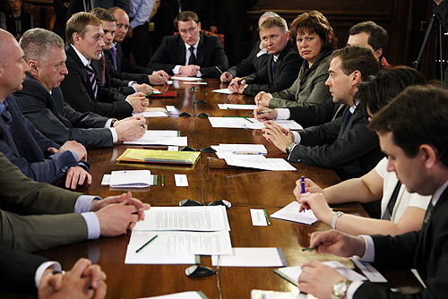 Meeting with Members of Liberal Democratic Party of Russia.